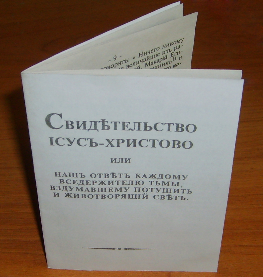 Russian Yehowists' booklet "Svidetelstvo Iesus-Christovo" ("Witness of Iesus-Christ"). Booklet and photo taken in Omsk, 2012.